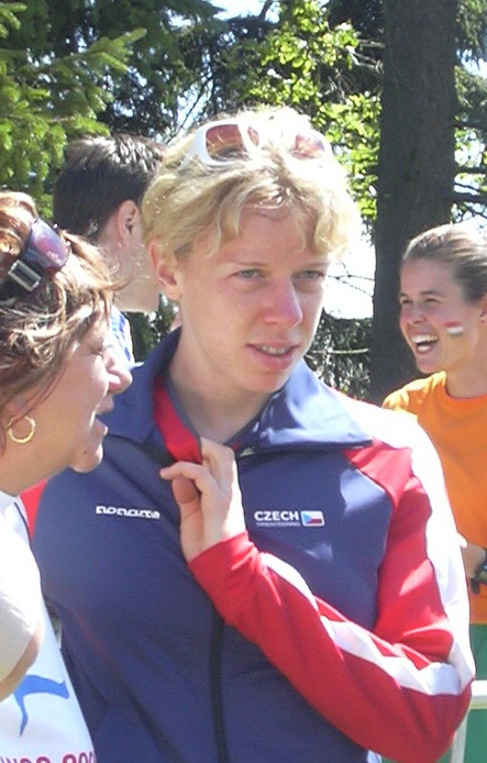 World Orienteering Championships 2008 in Olomouc, Czech Republic. On photo Radka Brožková.